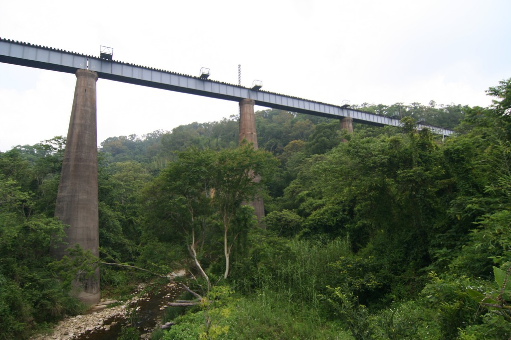 Longteng Iron Bridge @ Old Mountain Railway 舊山線龍騰鐵橋